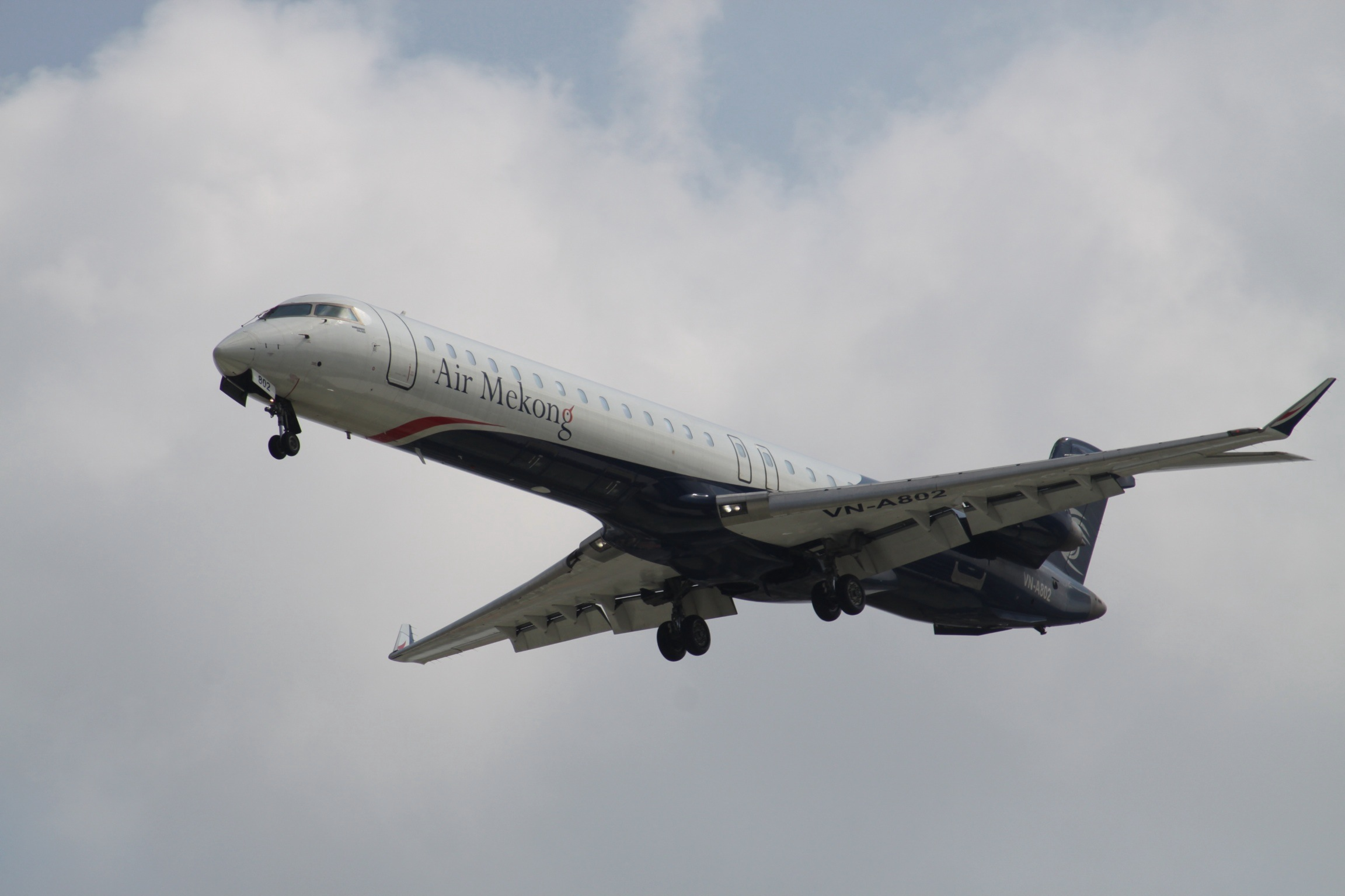 At Ho Chi Minh City Tan Son Nhat